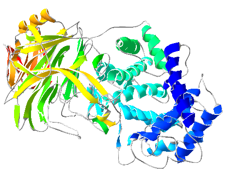 Hyaluronidase 10JN; Gen w/ Deepview using PDB:1OJN. Careful where you use this! There are two hyaluronidases (EC 3.2.1.35 and EC 4.2.2.1), the first is a hydrolase and also called chondroitinase; the second, this one, is a lyase. Both differ in where hyaluronat is broken down.